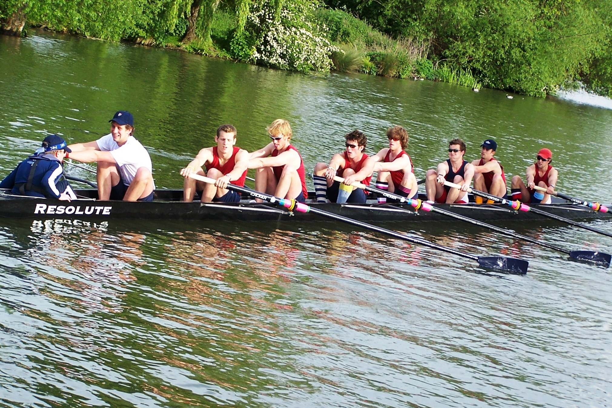 Description: Christ Church Men's 1st VIII, 2005 Copyright: Victoria Dare/Christ Church Boat Club